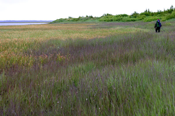 Kvichak River, Alaska